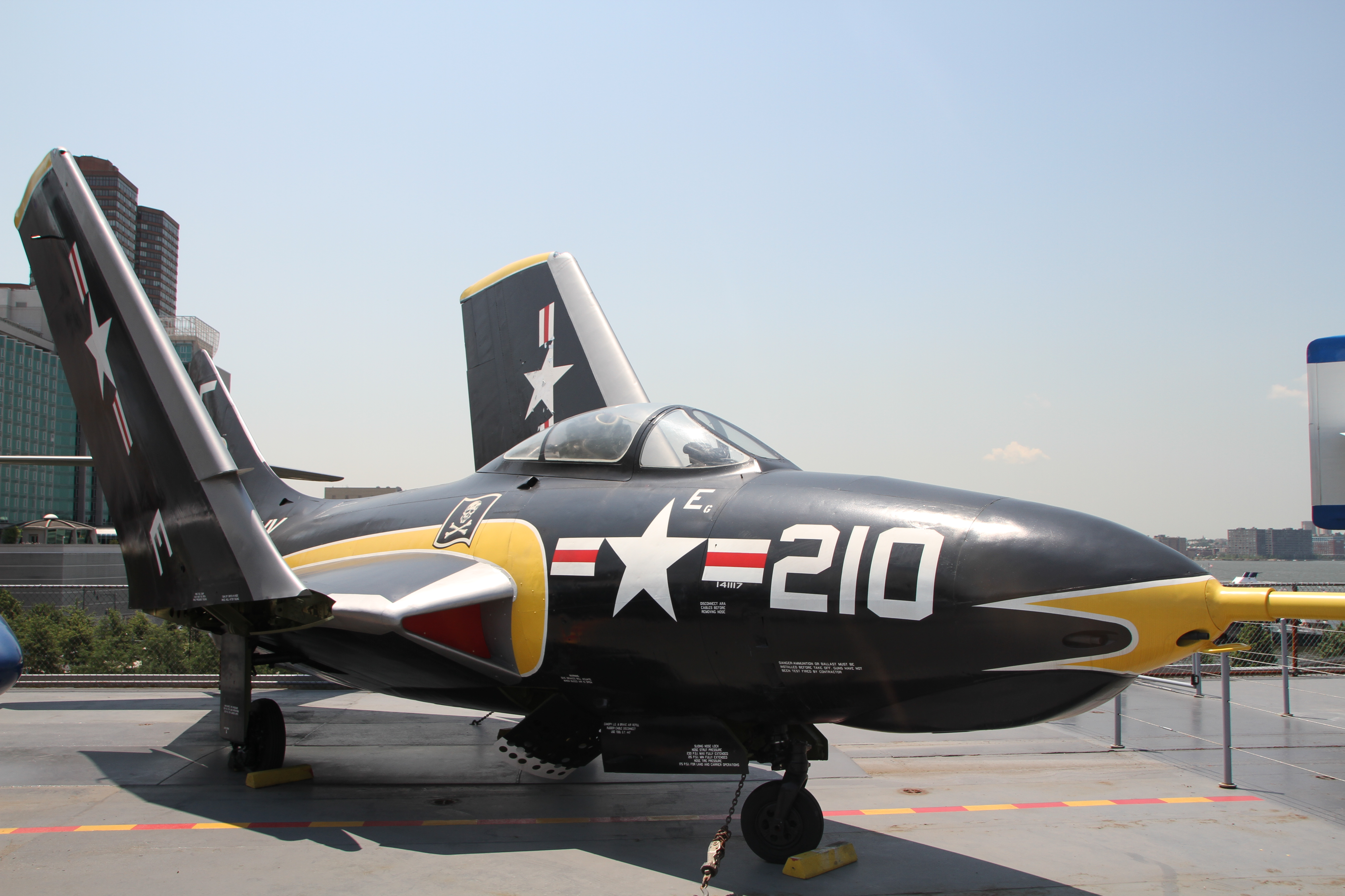 Image of Grumman historic fighter plane onboard the USS Intrepid, New York City